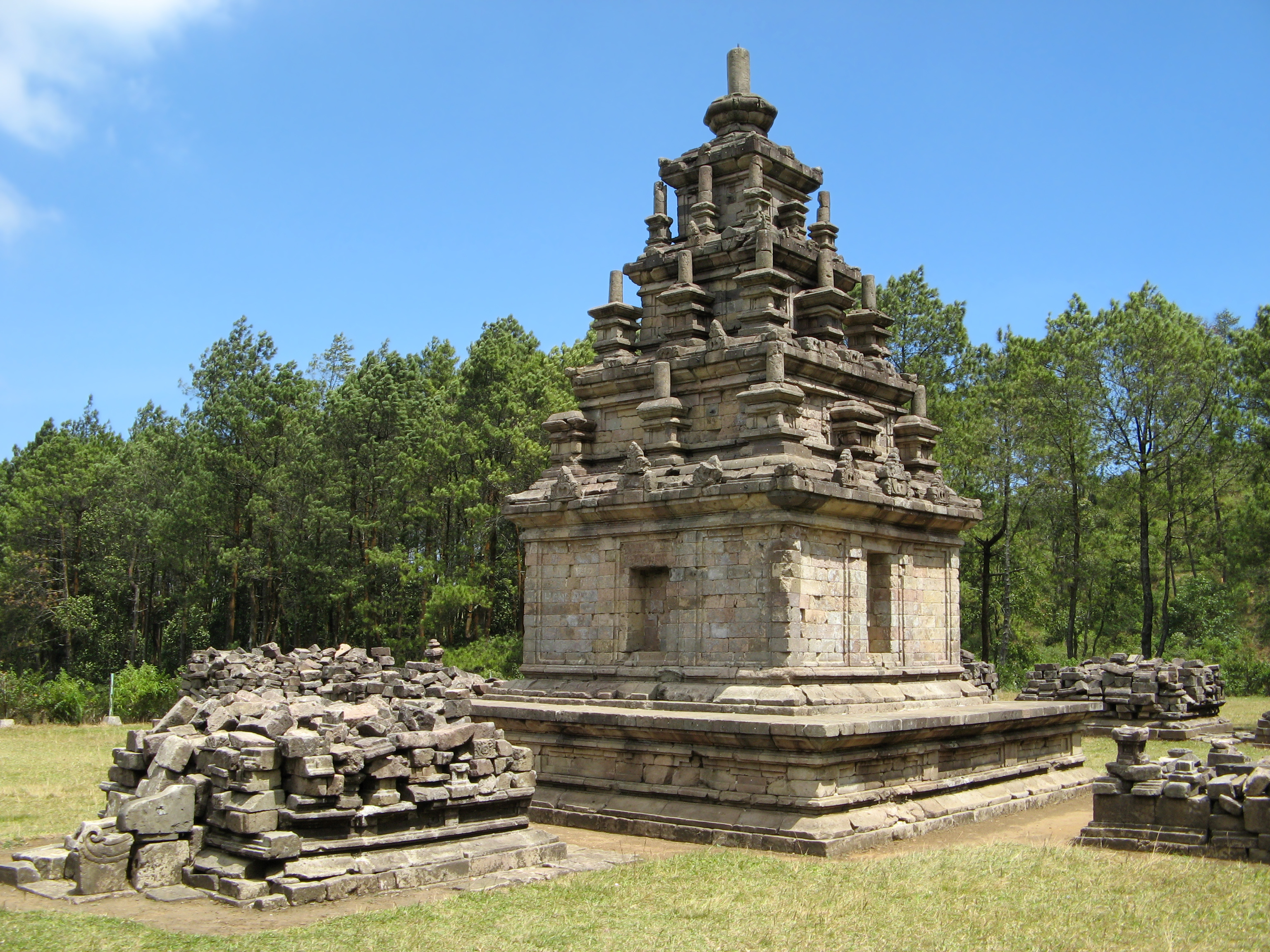 Appropriately enough for a Shiva temple, this roof is covered in lingas. The surrounding shrines, whose bases are visible in this photograph, could not be restored, because too many of their stones are missing.